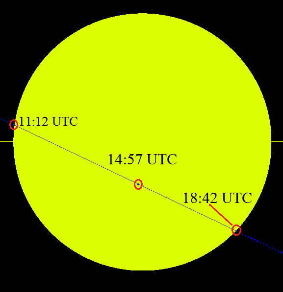 Transit of Mercury. Mercury transits the sun from east to west at its descending node. The horizontal yellow line represents the ecliptic, and the top is North.